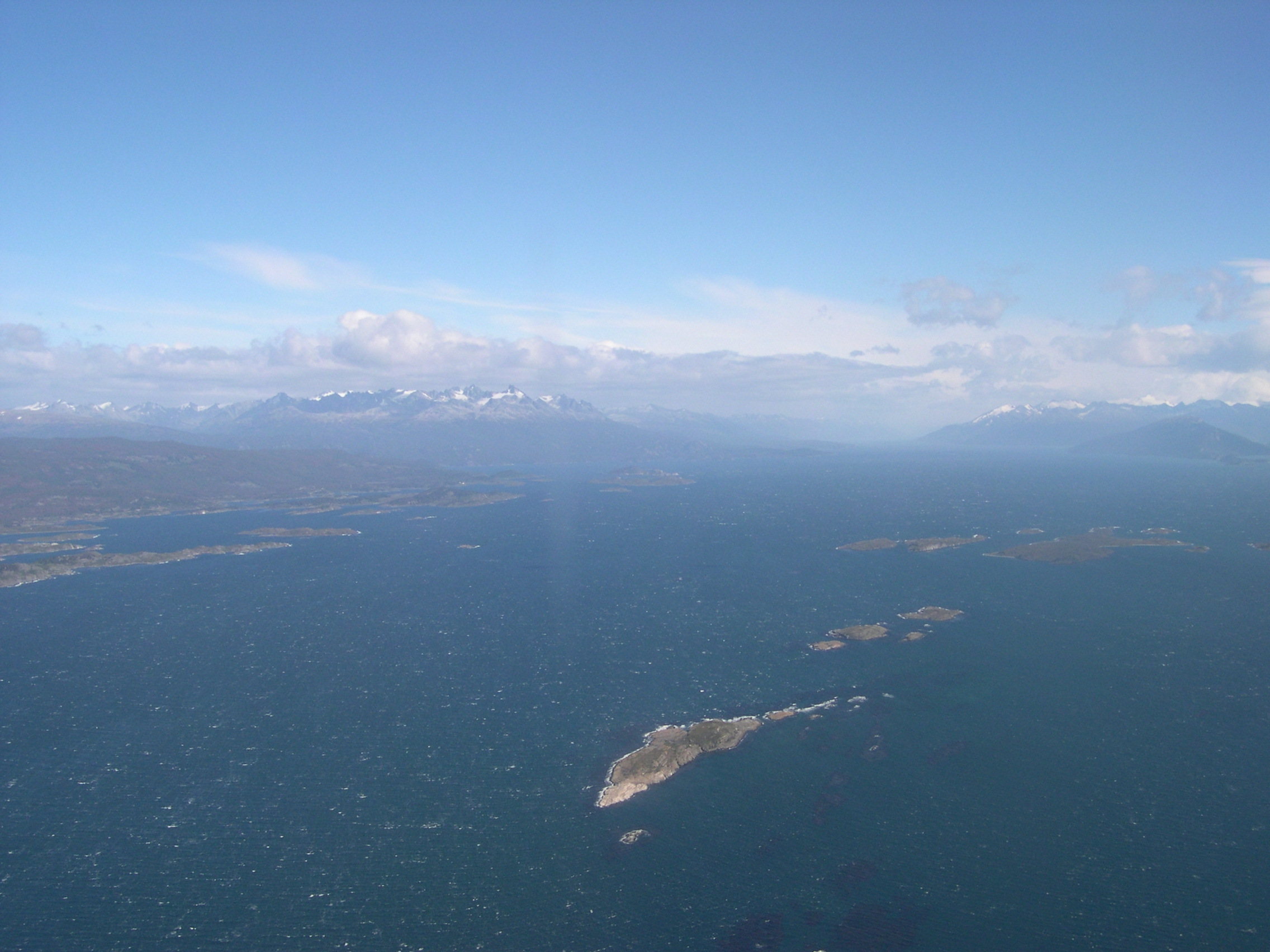 Beagle_channel